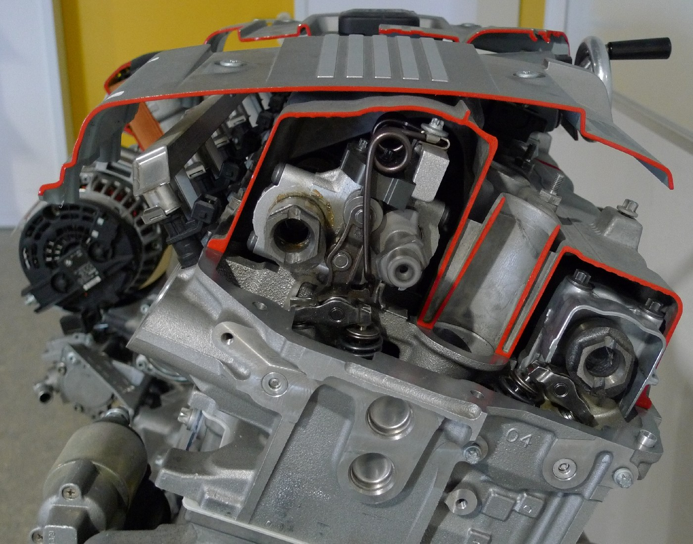 Sectional model of a BMW N52 engine, Institute of Applied Materials – Materials Science (IAM–WK), Karlsruhe Institute of Technology (KIT)